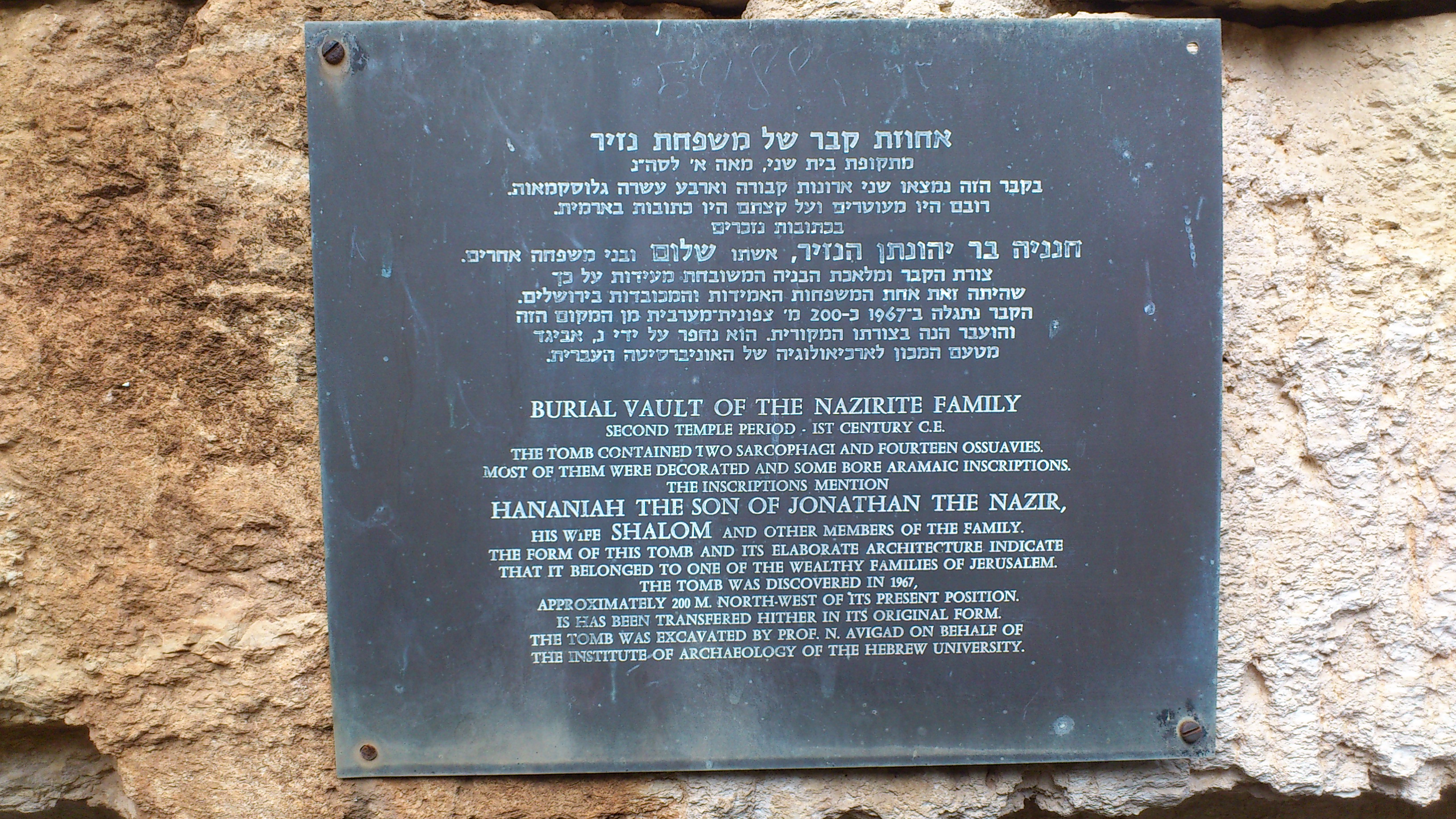 Cave of Nezir Family